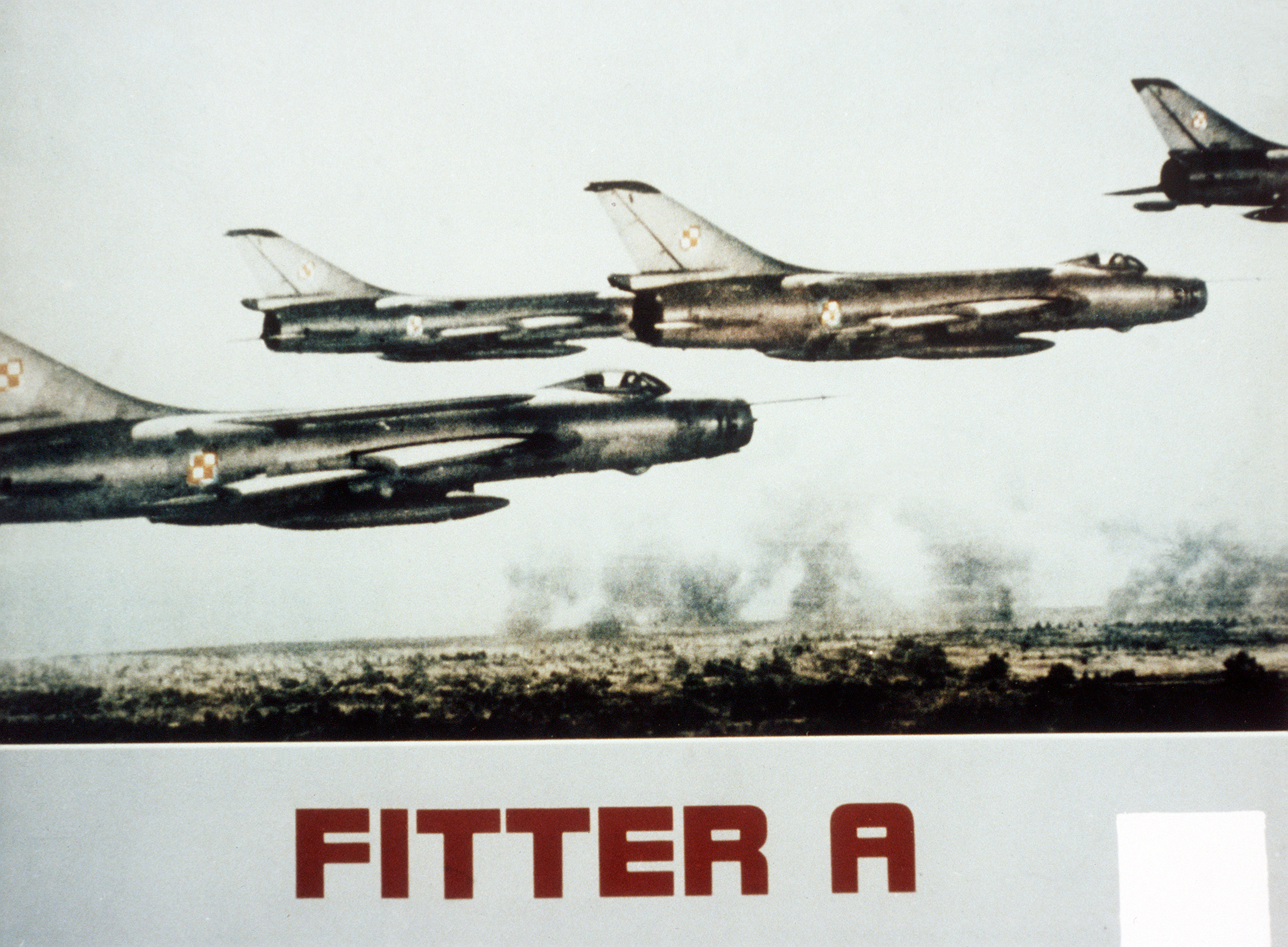 A right side view of three Polish Su-7 Fitter-A aircraft in flight.